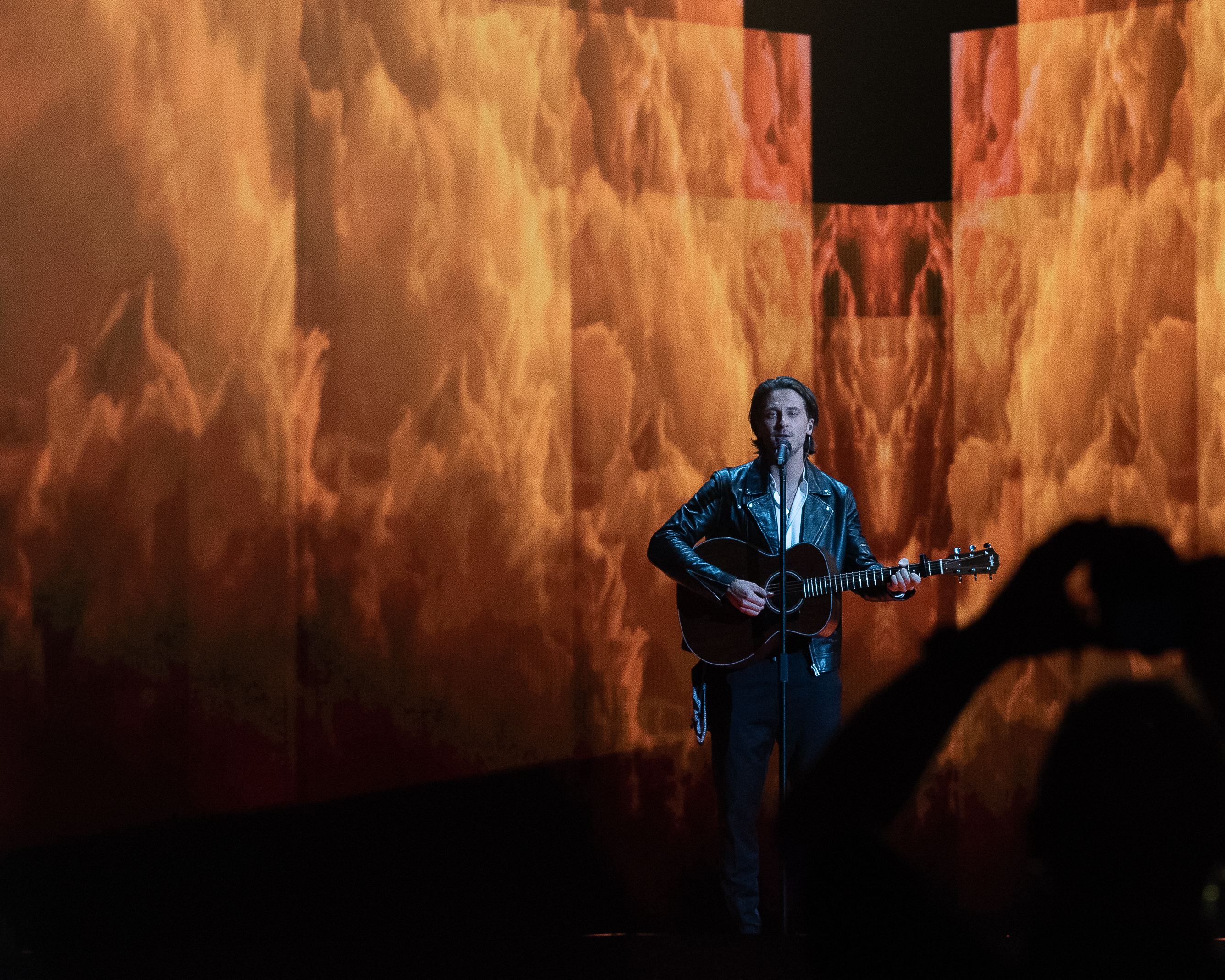 At the 2019 Eurovision Song Contest Semi-final 1 dress rehearsal